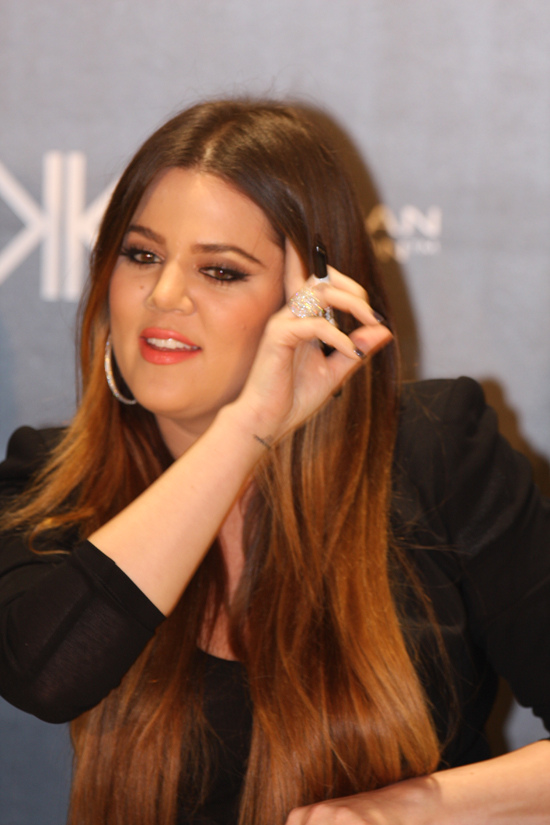 Khloé Kardashian